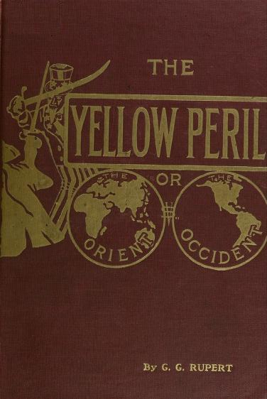 frontcover of 3rd edition of The Yellow Peril